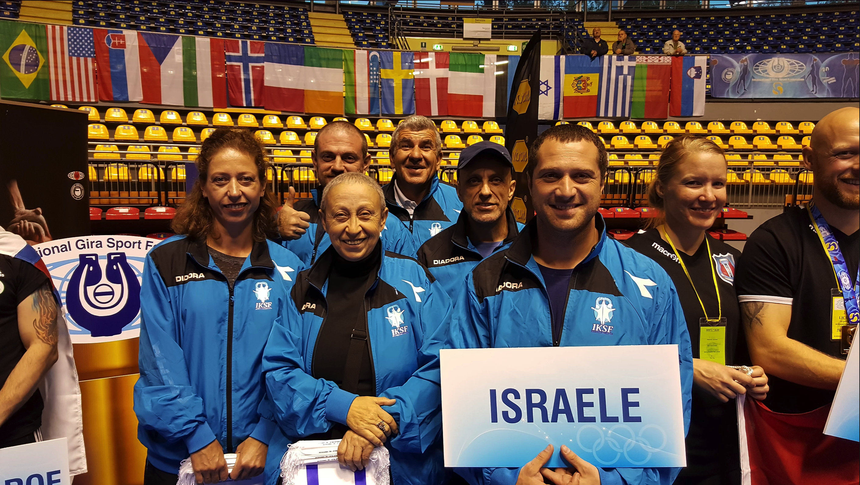 Сборная Израиля на чемпионате мира 2016 - Италия